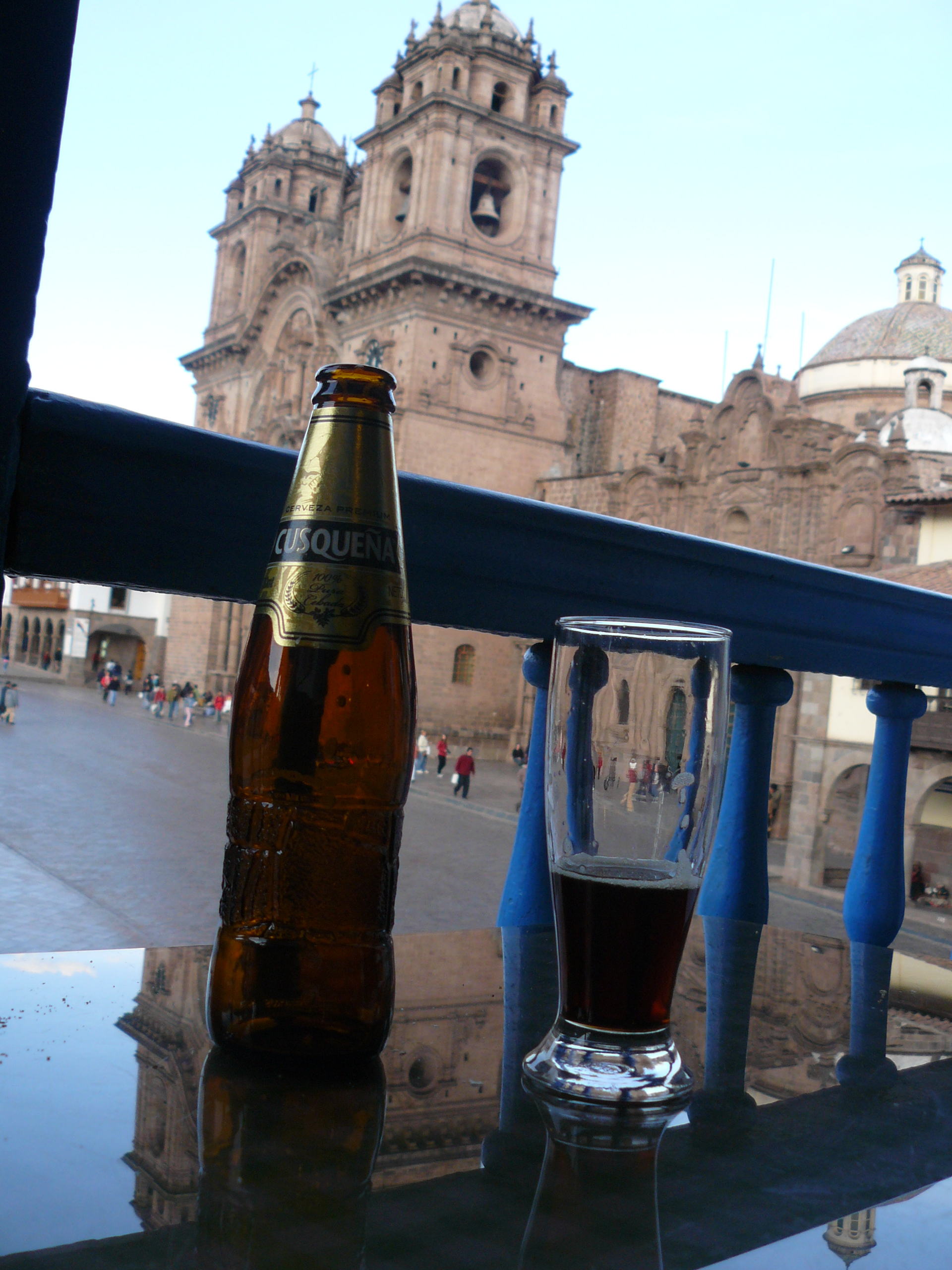 Cusqueña stout on the Plaza de armas of Cusco, Peru (back : Compania Church)